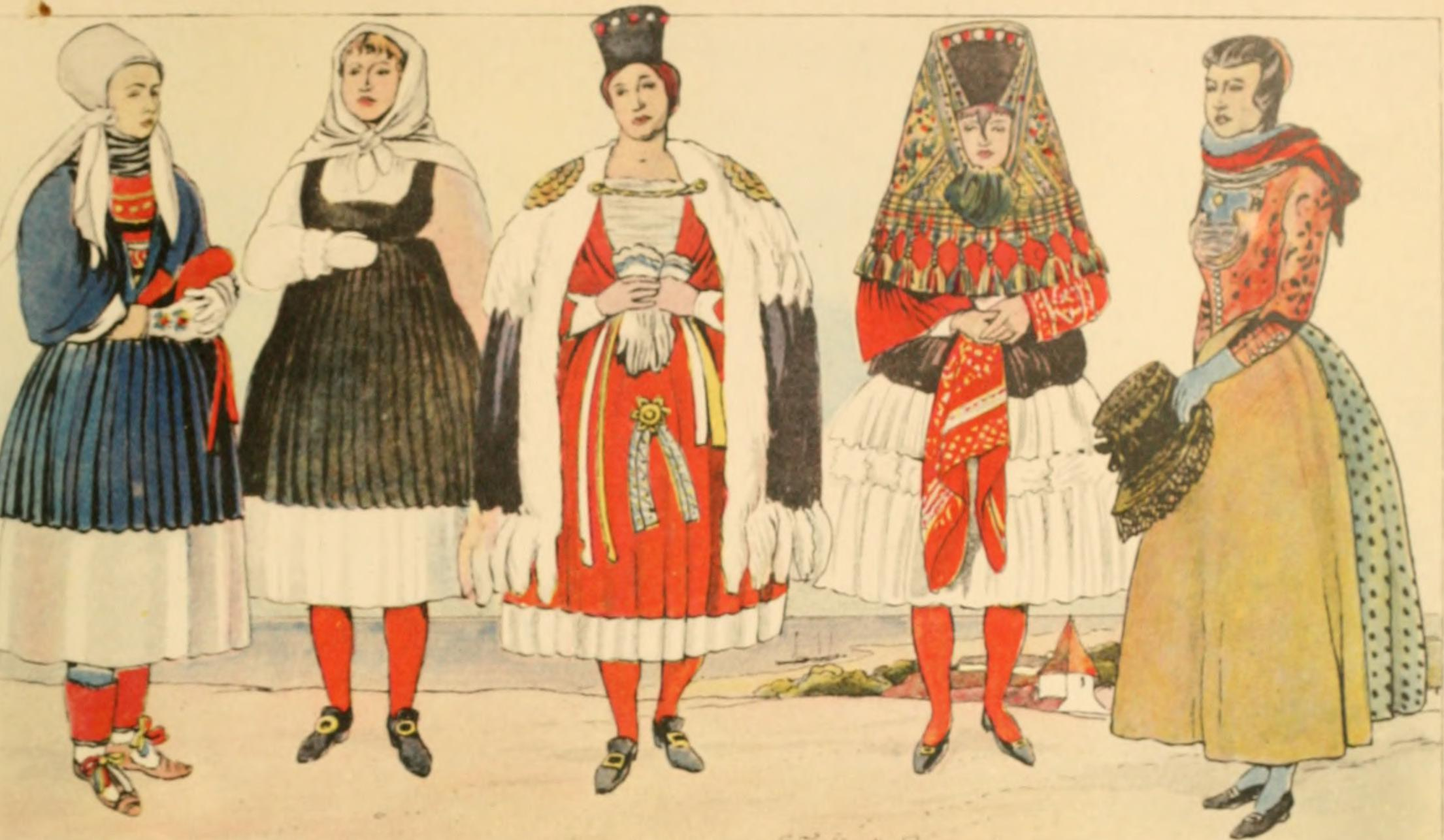 Title: Geschichte des Kostüms Year: 1905 (1900s) Authors: Rosenberg, Adolf, 1850-1906 Heyck, Eduard, 1862-1941 Subjects: Costume Publisher: New York, Weyhe Text Appearing Before Image: Das hatte die eigenartige Folge, daß ohne Kopftücher, wenn sie sie im Hause abgenommen hatten, diese Mädchen und Frauen um die Augen und obere Nase, braun wie die Malaien aussahen, wie ein Schilderer sich ausdrückt, sonst aber auch im Gesicht so schneeweiß; und zartrosig waren, wie es sonst nur die stets bedeckte feine weibliche Haut, etwa an der Brust, ist. Und so wird es begreiflich, daß die Sitte, die ursprünglich nur dem Schutz diente, auch in die Festtracht, wie bei Fig. 6, überging; man wollte mit dieser gescheckten Gesichtsfarbe sich nicht mehr öffentlich zeigen. Fig. 8 tragt die spitze Mütze der Hallig-Bewohnerinnen als Mädchen. Die Frauen tragen darunter noch eine weiße Haube, und deren Hand sieht dann unter der Mütze als Streifen (Sträämel) heraus. Zu allem vergleiche man das Werk von Christian Jensen, Die nordfriesischen Inseln Sylt, Föhr, Amrum und die Halligen vormals und jetzt. 2. Aufl. Hamburg, 1899; nach ihm sind auch die meisten Figuren unserer Tafel gezeichnet. Text Appearing After Image: '